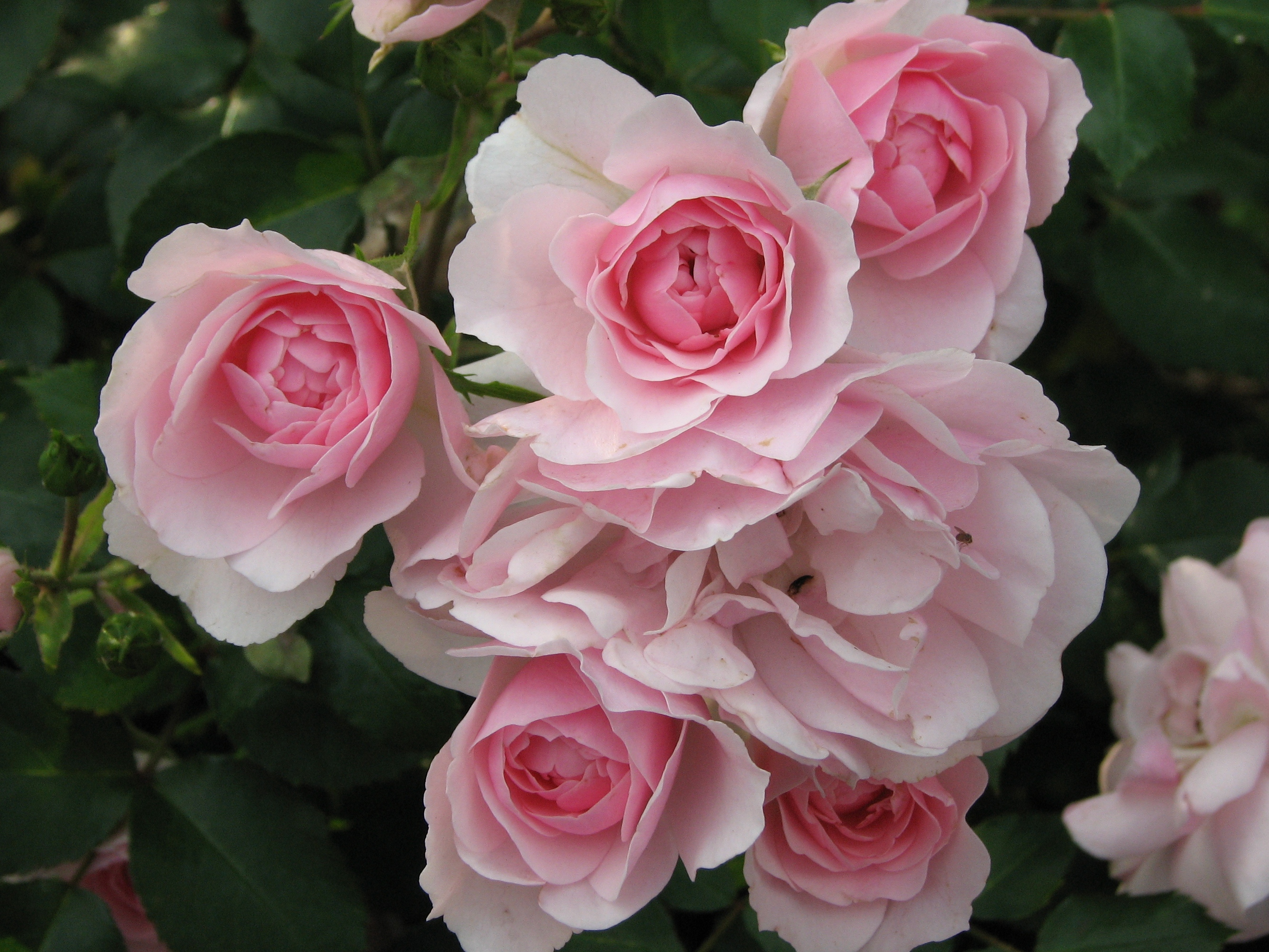 Rosa 'Bonica 82' (Meilland). From the collection of the Main Botanical Garden of Academy of Sciences in Moscow (Rosarium).